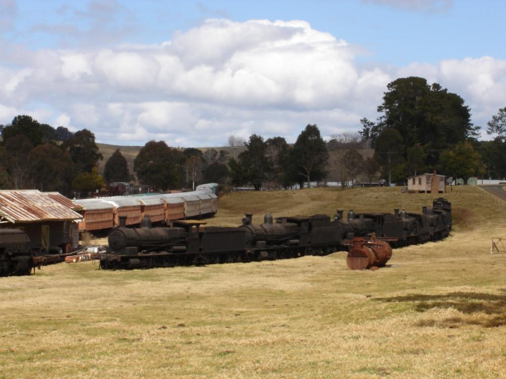 Steam trains at museum at Dorrigo